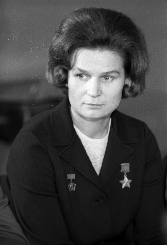 “Pilot-cosmonaut Valentina Vladimirovna Tereshkova”. First woman in space, Hero of the Soviet Union Valentina Tereshkova